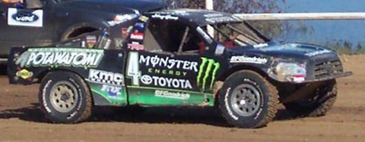 WSORR driver Johnny Greaves (racer) at the 2008 BorgWarner championship race at Crandon International Off-Road Raceway.